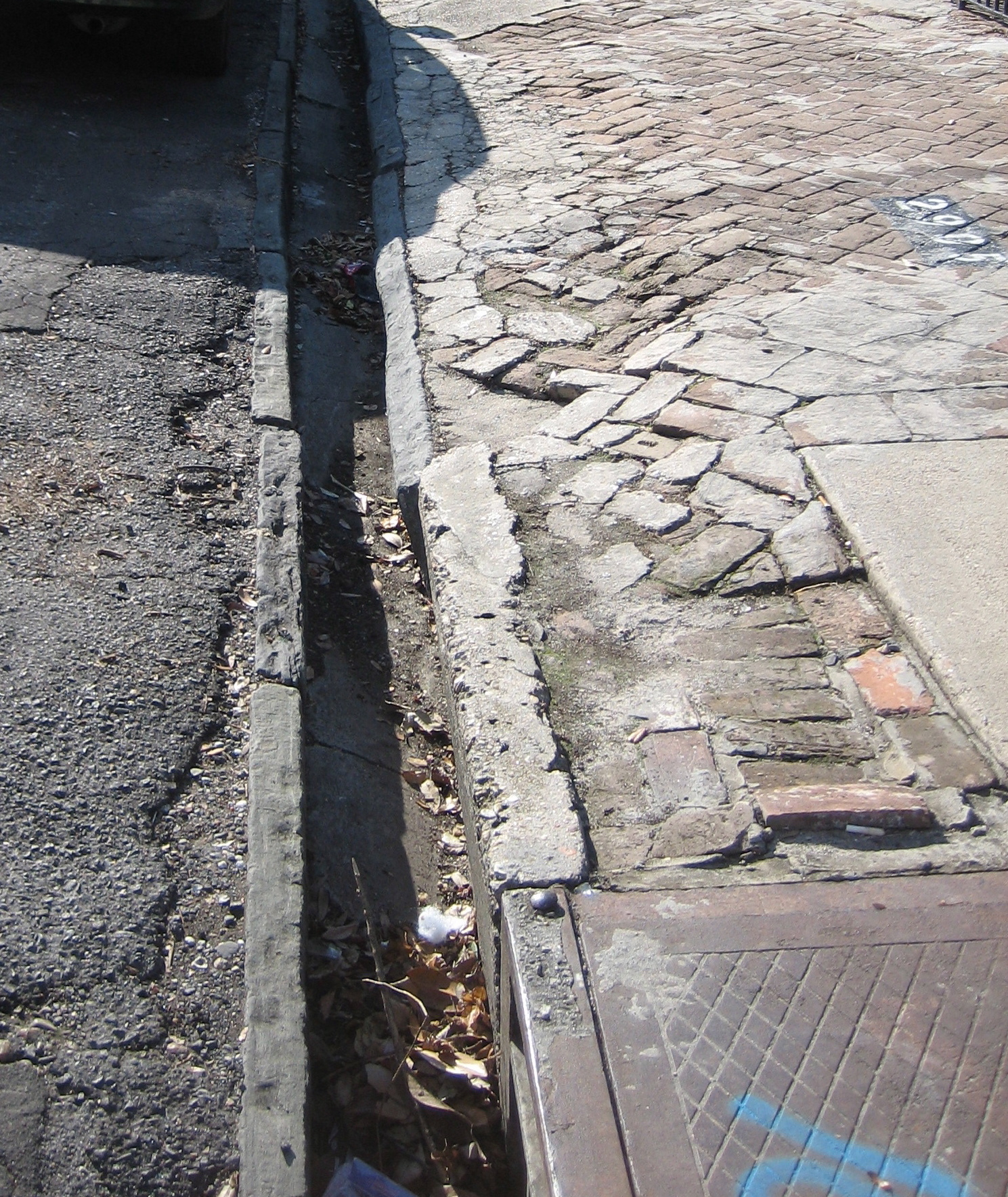 New Orleans: bit of remaining 19th century/early 20th century intact in the 21st: old style brick sidewalk with granite gutter.